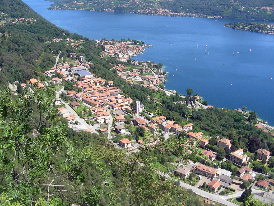 Italy, Piedimont, province of Verbano, Cusio, Ossola, municipality of Madonna del Sasso: Alzo and Pella seen from the sanctuary of Madonna del Sasso